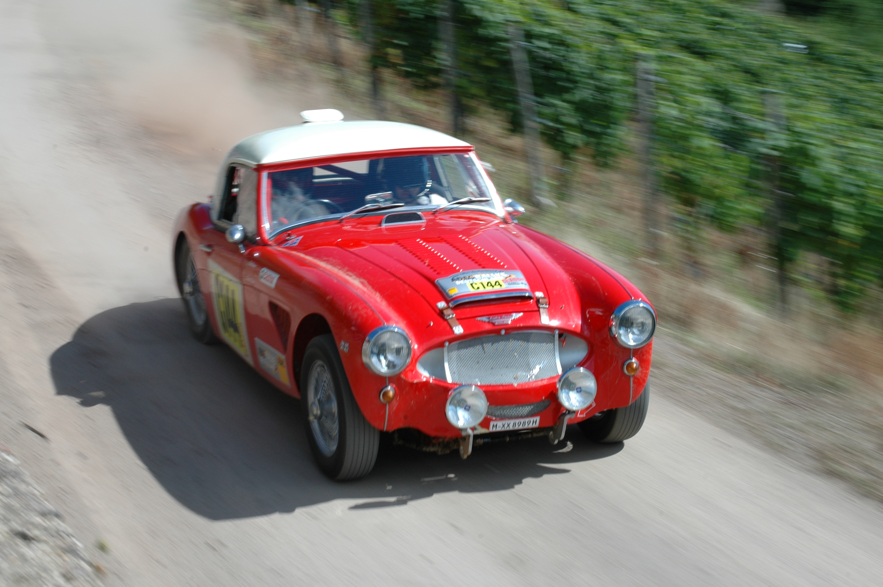 Austin-Healey 3000 driven during the 2007 Rallye Deutschland.